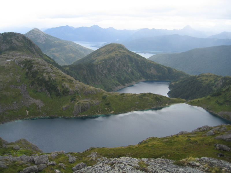 Erin McKittrick, Ground Truth Trekking, own work